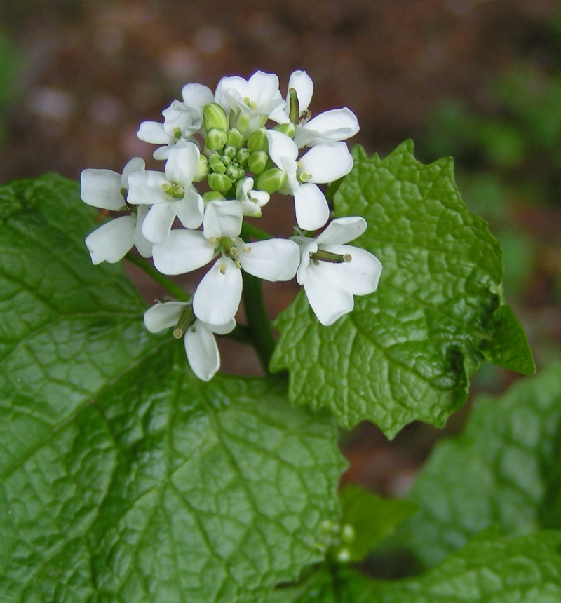 Garlic Mustard (Alliaria petiolata). Photo by sannse, Tapeley Park, Instow, North Devon, 14 May 2004.